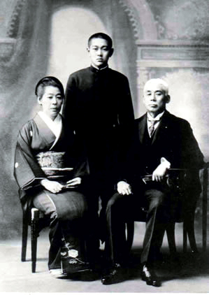 Japanese Prime Minister Takashi Hara (原敬, 1856–1921, in office 1918–21) with his wife Asa and son